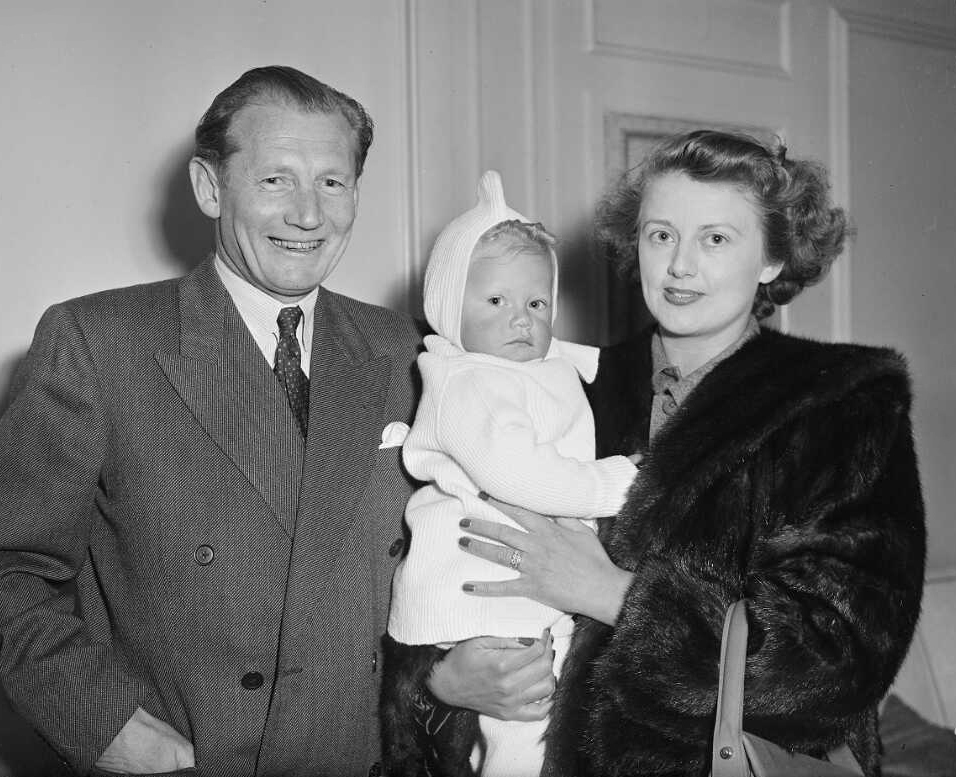 Mr and Mrs C E Malfroy and child photographed 25 May 1951 by an Evening Post staff photographer